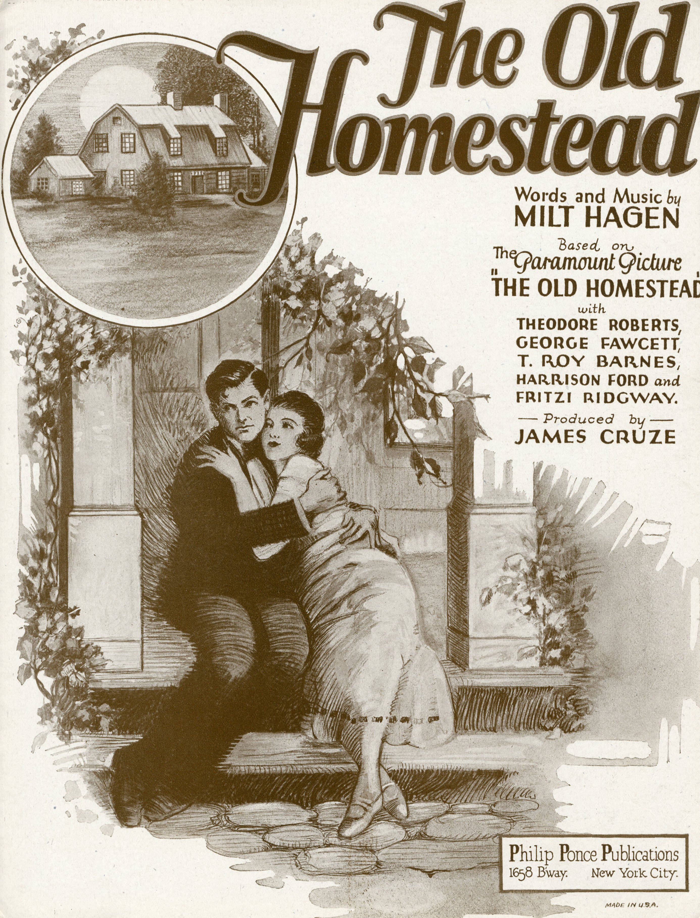 Sheet music cover: "The Old Homestead" 1 vocal score (5 p.) ; 31 cm. Illustrated cover. The Old Homestead (Motion picture : 1922)